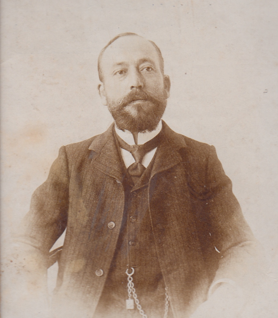 A photograph of Vladimír Mičátek (1871-1922), Vojvodinian Slovak teacher and translator from Kisač. Inventory number 2392. Srpski (latinica): Fotografija Vladimira Mičateka (1871-1922), slovačkog učitelja i prevodioca iz Kisača. Inventarni broj 2392.